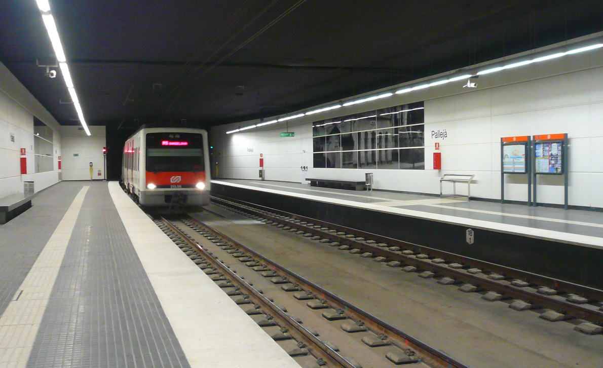 Pallejà station.